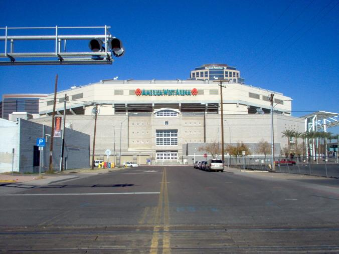 America West Arena southside (now US Airways Center)